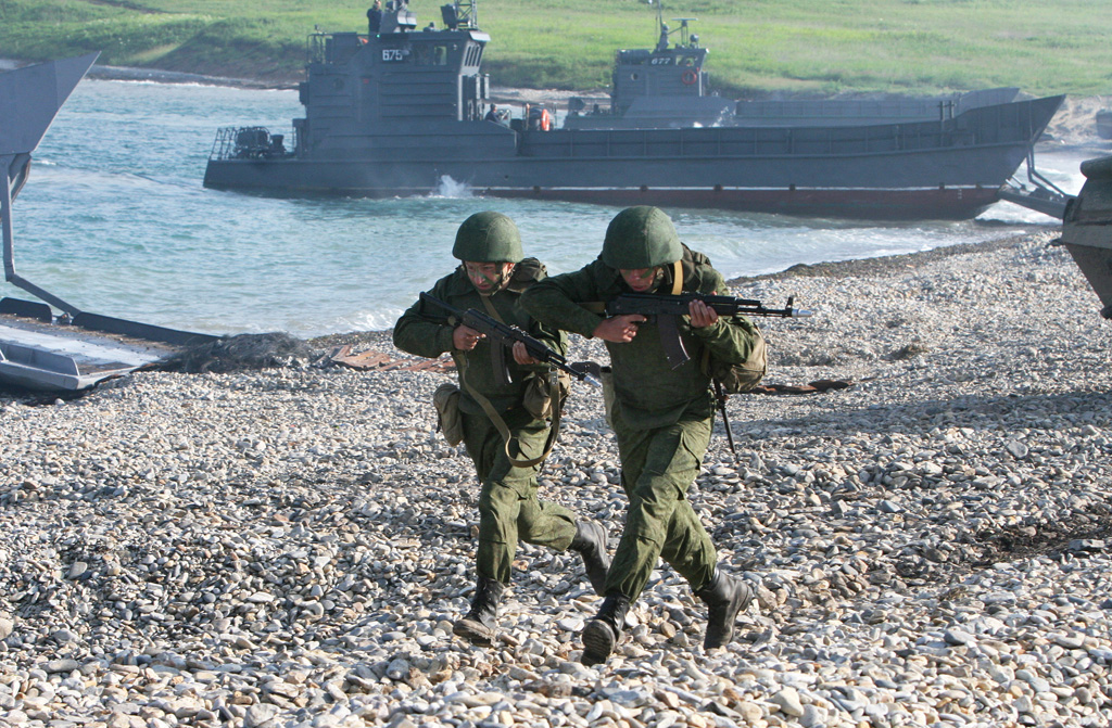 “Vostok 2010 Strategic Exercise in Vladivostok”. Seaborne assault landing on Cape Clerke during the Vostok 2010 Strategic Exercise.